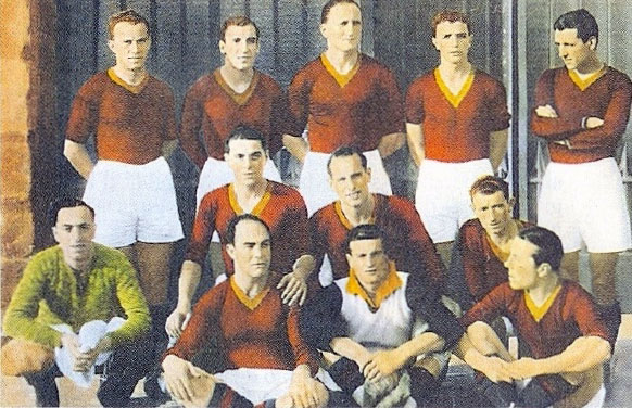 Milan (Italy), Civic Arena, December 20, 1931. A line-up of A.S. Roma took to the pitch in the away defeat versus A.S. Ambrosiana-Inter (2-1), Matchday 12 of the Italian League 1931–32 Serie A. From left to right, top: R. Costantino, C. A. Fasanelli, R. Volk, F. Eusebio, A. Chini Ludueña; middle: A. Ferraris (IV), F. Bernardini, R. D'Aquino; bottom: masseur, A. Mattei (I), G. Masetti, R. Bodini (II).